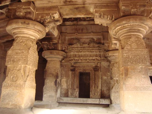 Aihole Konti Gudi